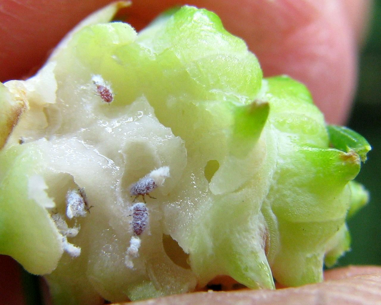 An opened gall from Pineapple gall adelgid Sacchiphantes abietis so the animals are visible.